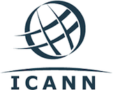 testing testing